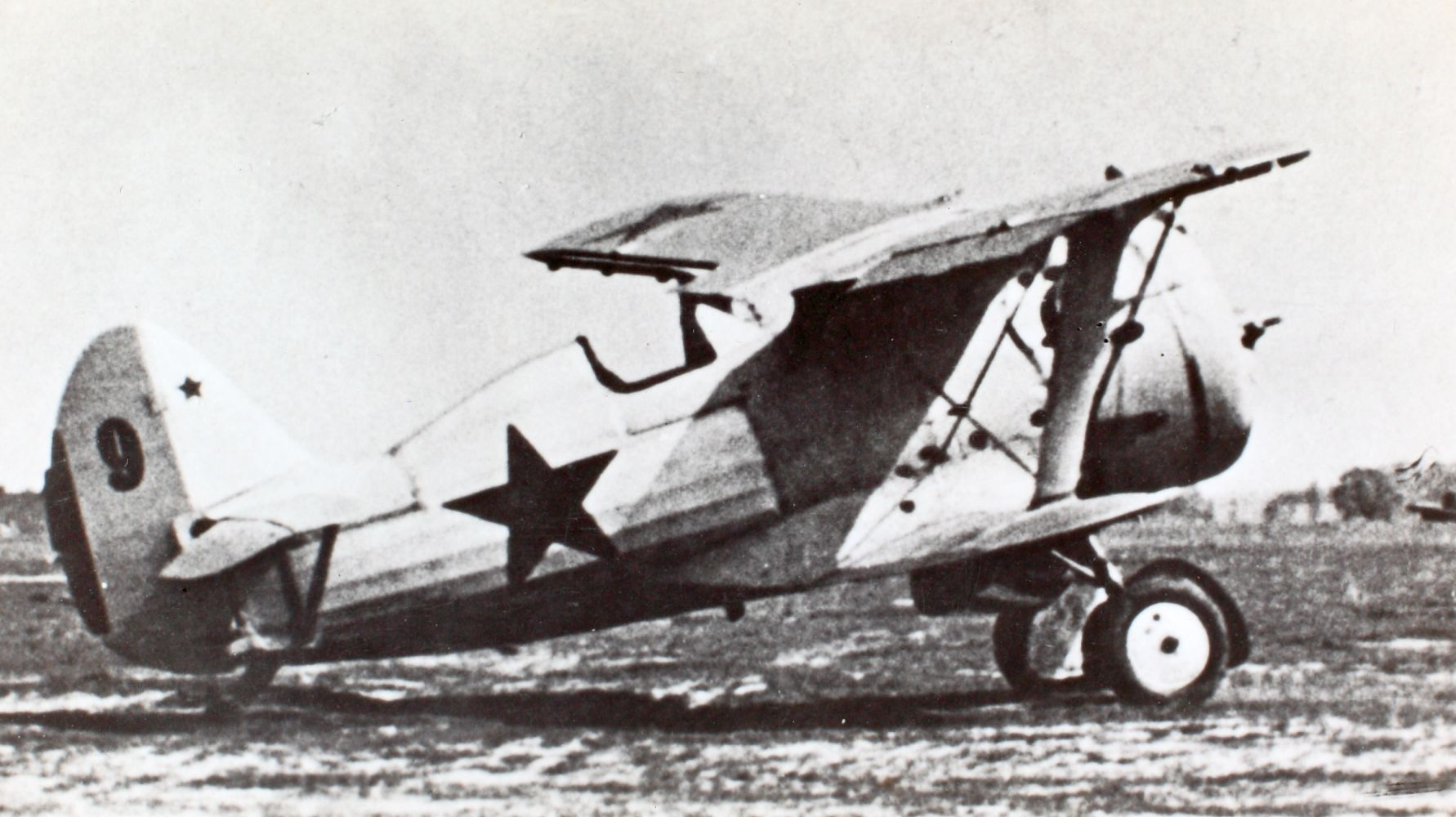 Catalog #: 15_002203 Title: Polikarpov I-153 Date: 1934 Collection: Charles M. Daniels Collection Photo Album Name: Soviet Aircraft Page #: 1 Tags: Soviet Aircraft, Charles Daniels, PUBLIC COMMONS.SOURCE INSTITUTION: San Diego Air and Space Museum Archive